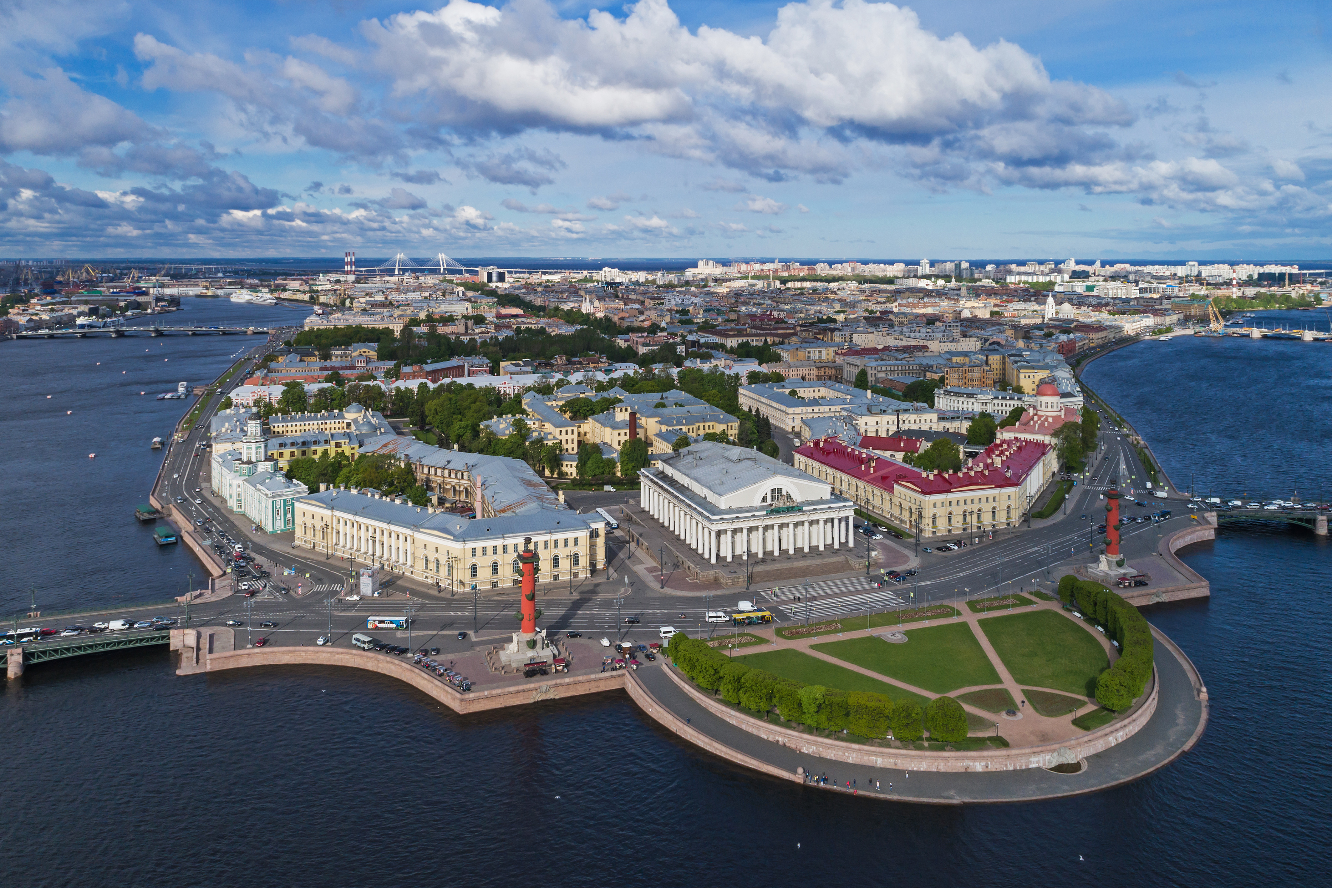 Aerial photo of the Vasilievsky Island Spit in Saint Petersburg (Russia).